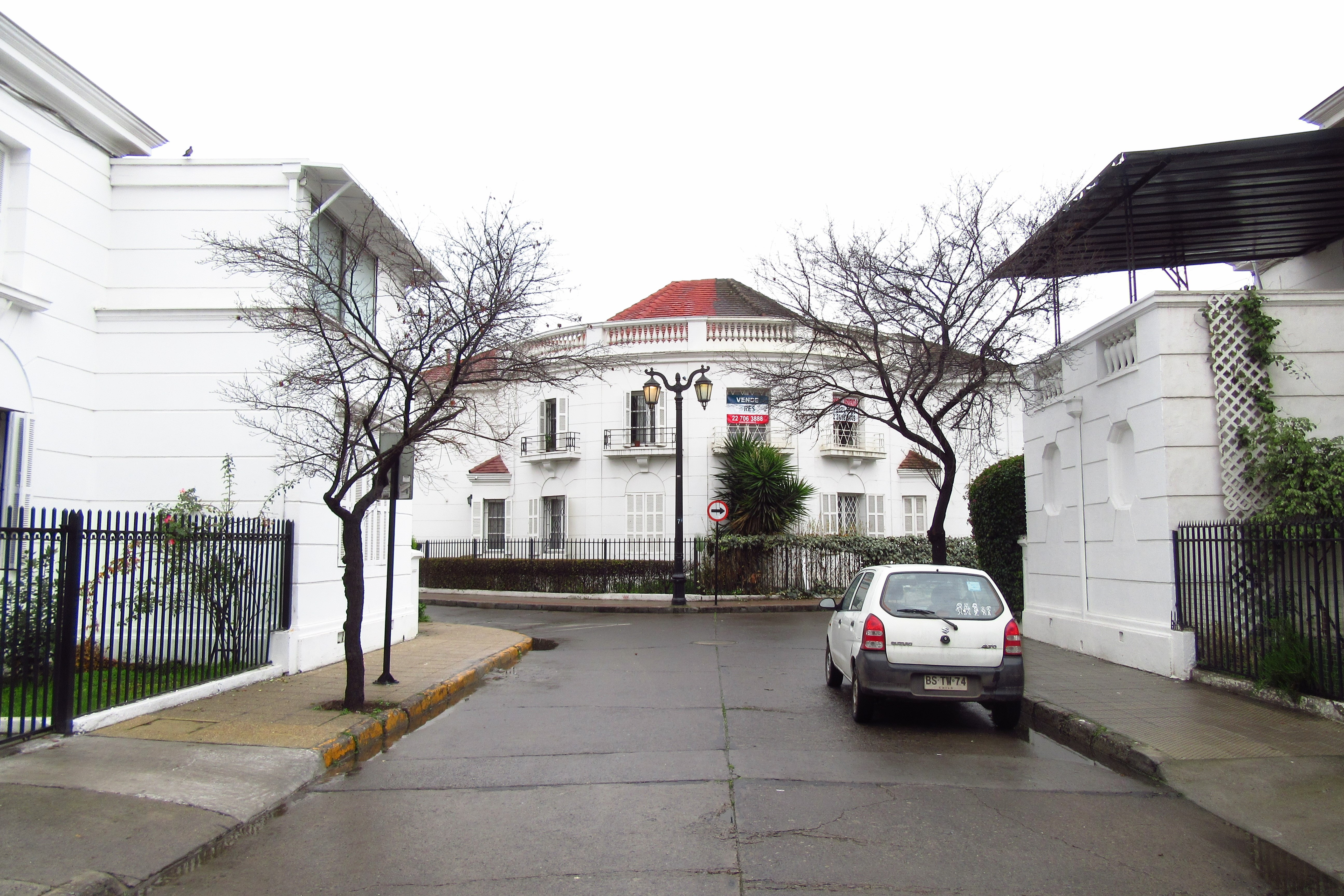 2017 in Santiago de Chile